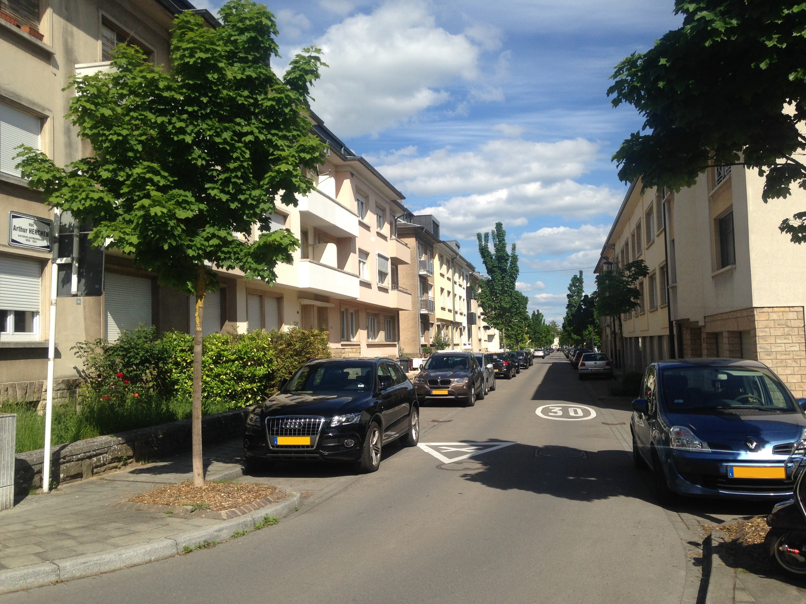 Rue Arthur Herchen in Belair (Luxembourg-City)